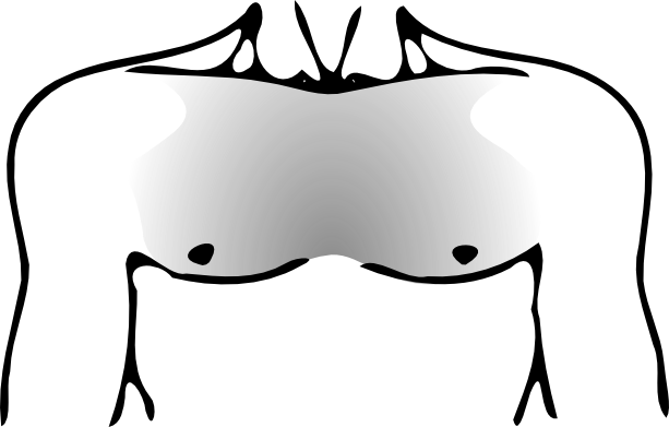 Illustration of chest hair pattern as described by L.R. Setty